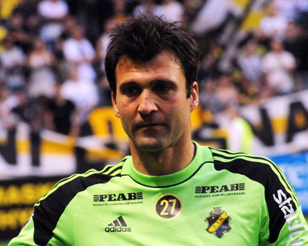 Kenny Stamatopoulos, main goalkeeper of AIK after the death of Ivan Turina #27, after a game against BK Häcken in 2013